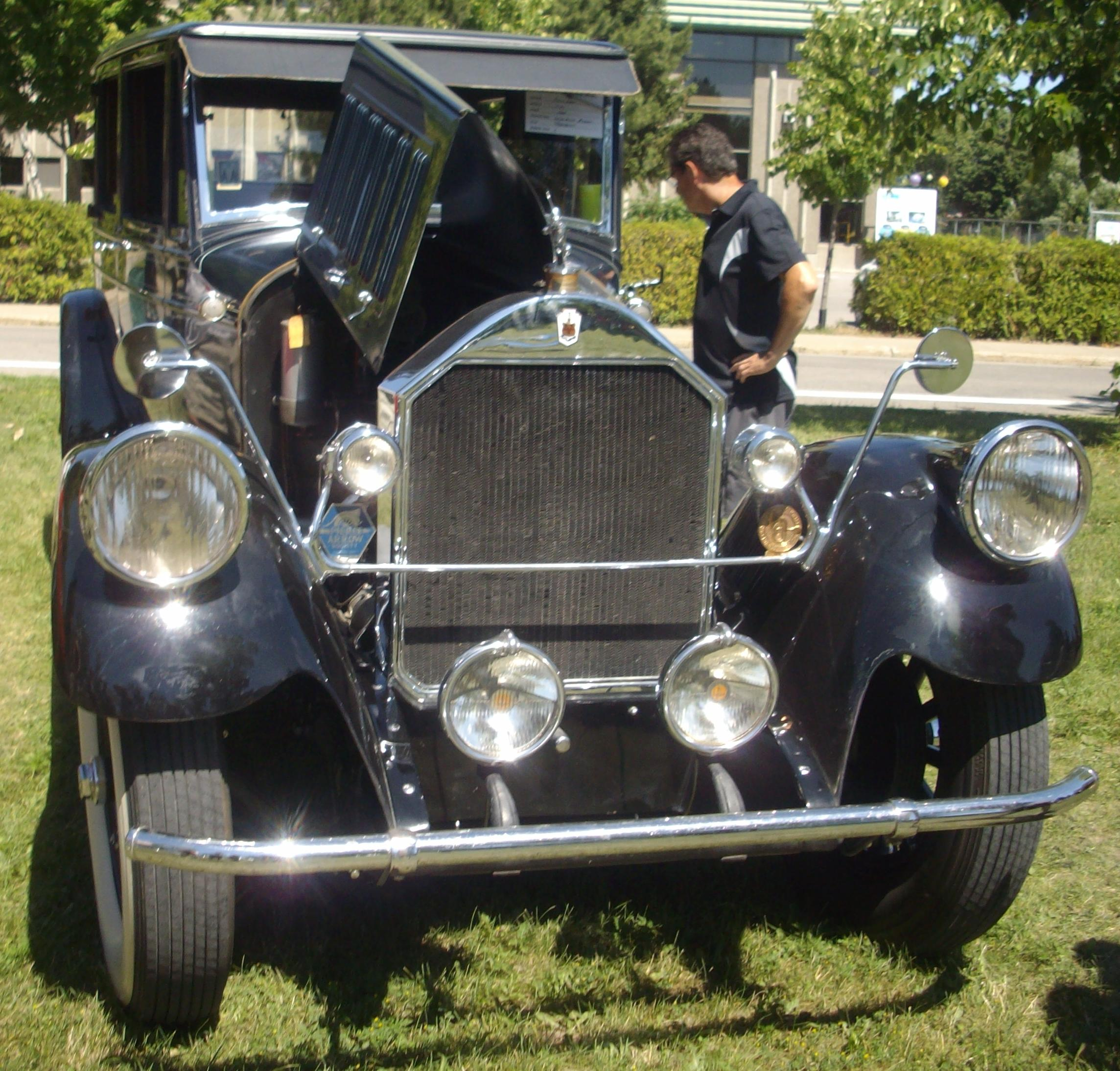 1928 Pierce-Arrow photographed in Laval, Quebec, Canada at Auto classique Laval 2012.